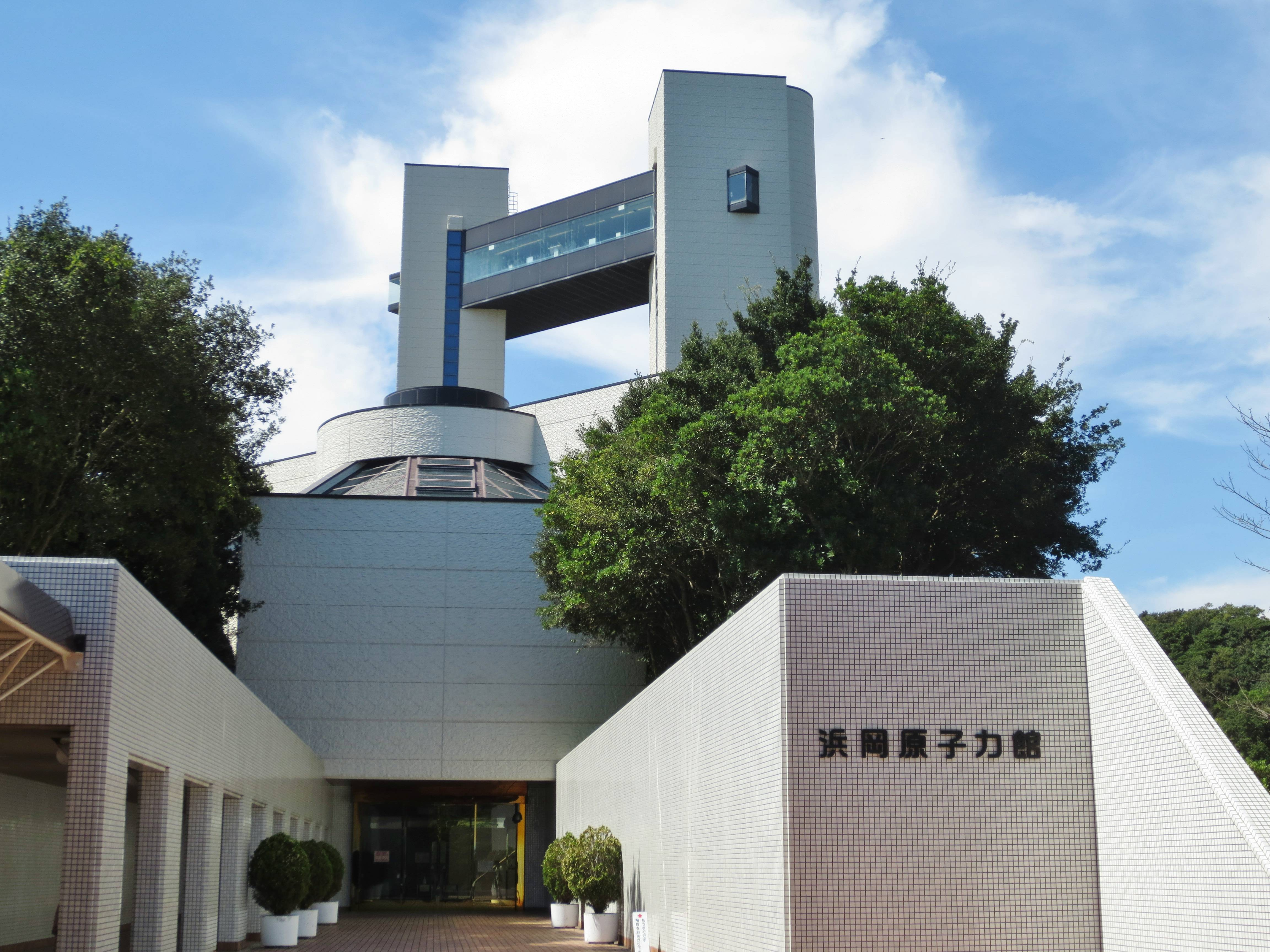 Hamaoka Nuclear Exhibition Center.